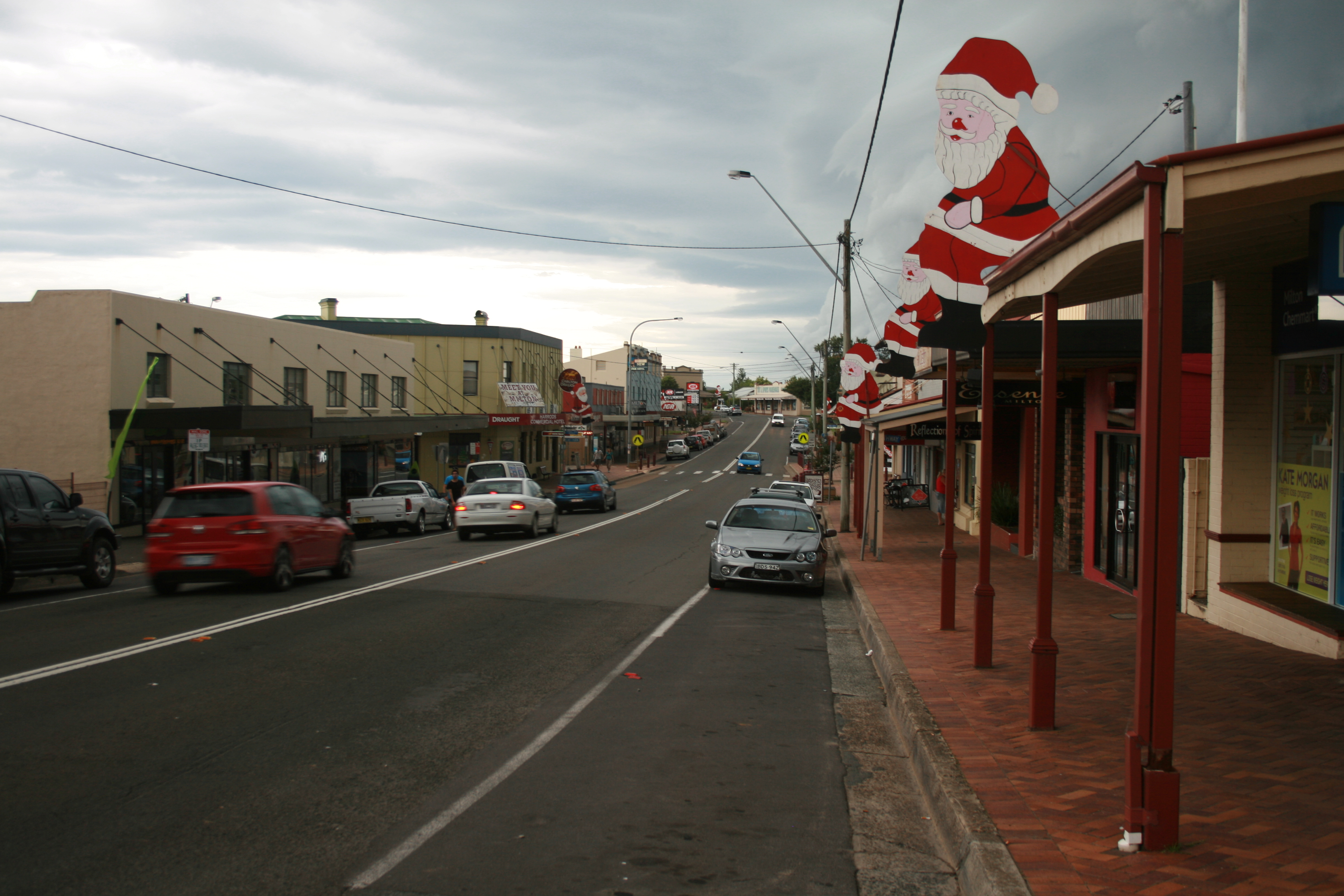 The main street through Milton, NSW, Australia.